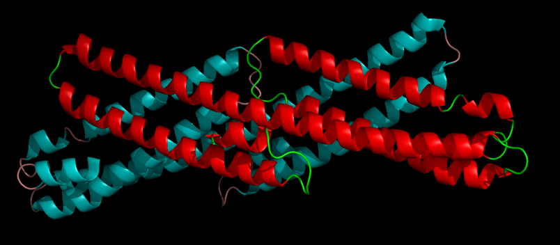 The dimerized form of the human amyloid precursor protein (APP) E2 domain, a dimeric coiled-coil.